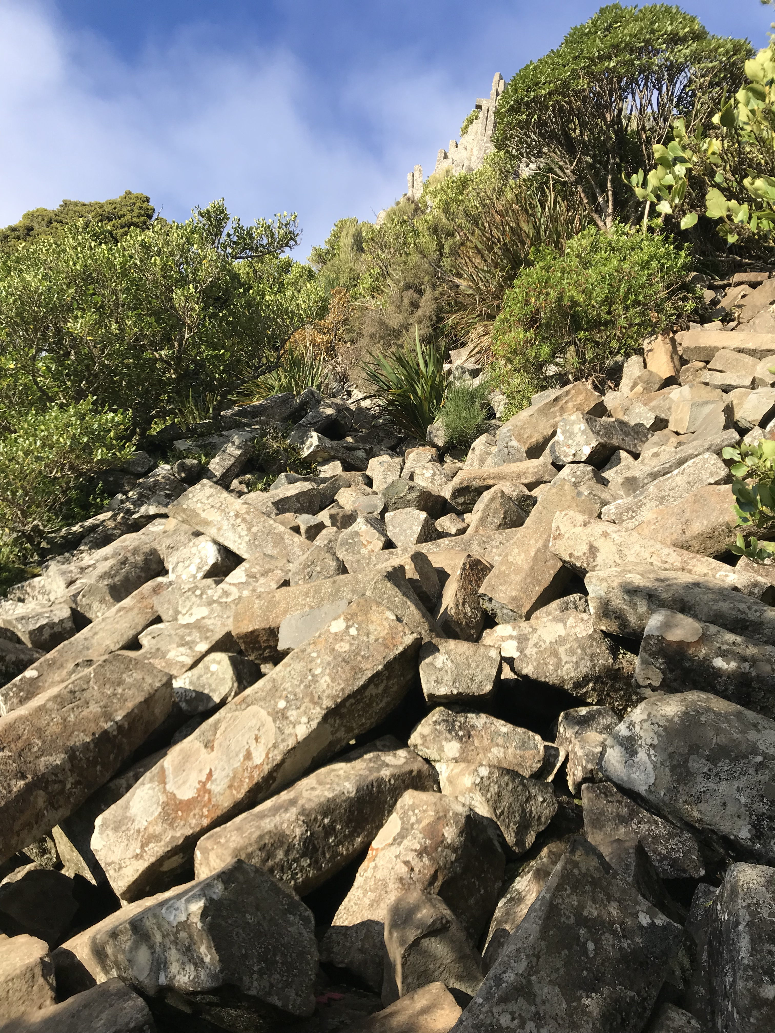 Basalt organ pipes on Mt Cargill, Dunedin, New Zealand (portrait)